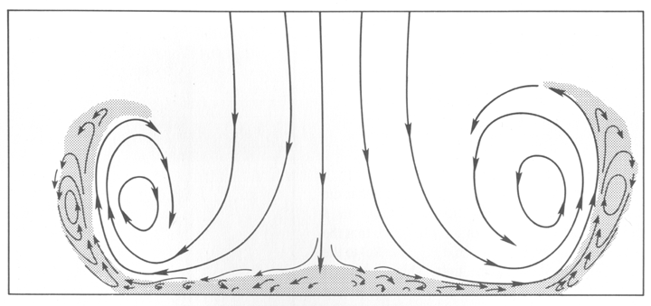 Vortex ring of microburst